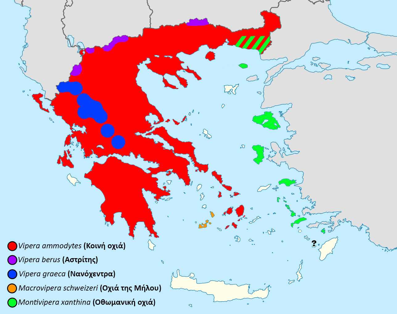 Distribution of viper species in Greece